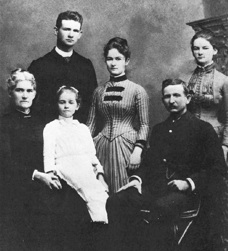 Martha Cooke Alexander and Samuel T. Alexander with their children: Martha, on her mother's lap, Wallace, Juliette, and Annie on the far right. Samuel (1836–1904) founded Alexander & Baldwin corporation, originally a sugar plantation, still part of the Dow Jones Transortation average. Annie became a palentologist and founded two museums. Wallace's daughter founded the Wallace Alexander Gerbode foundation.